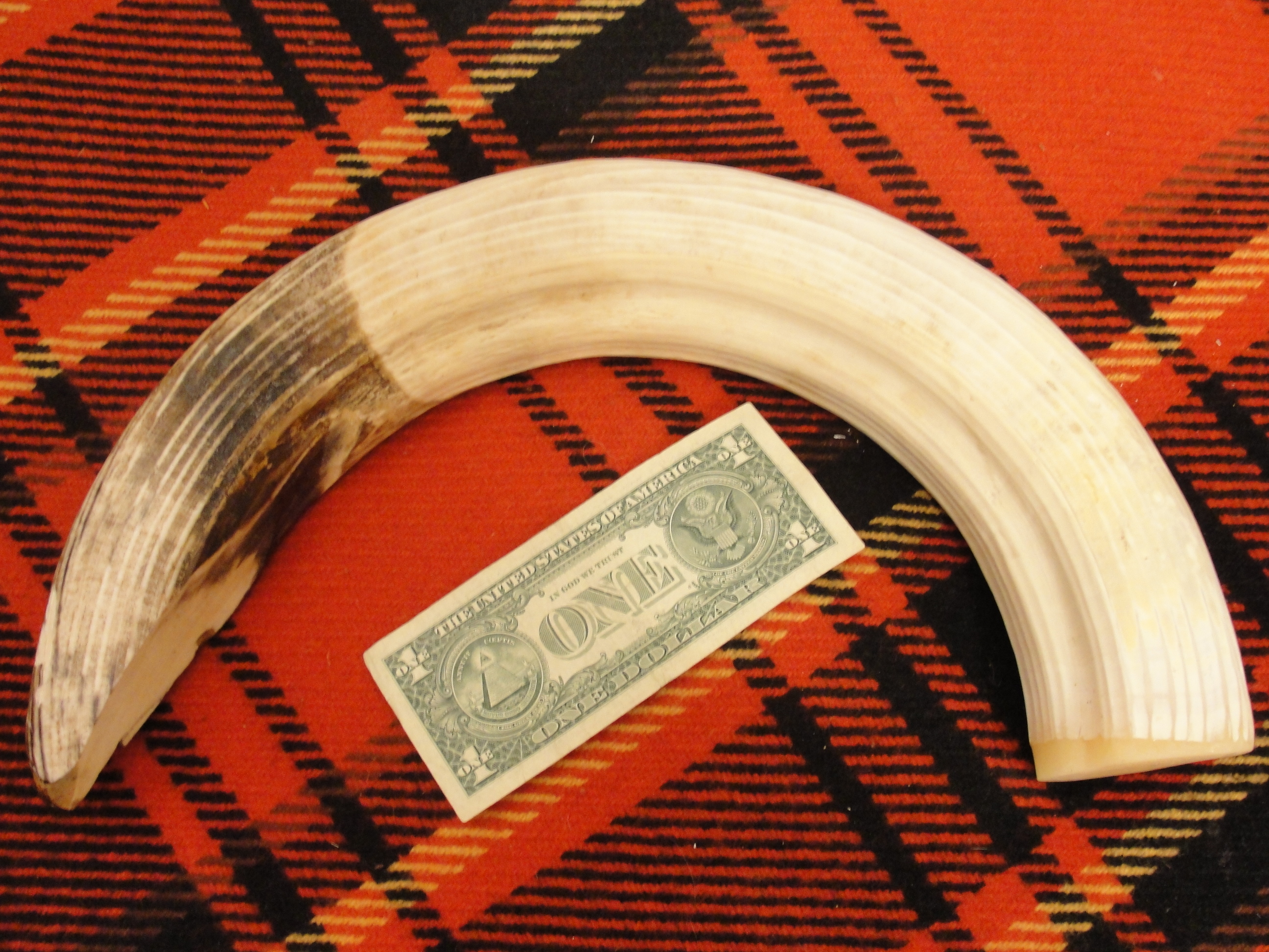 Tusk of a Male Hippopotamus Shot in May 2010 in Zambia, with Overall Length of 64 sm (2')